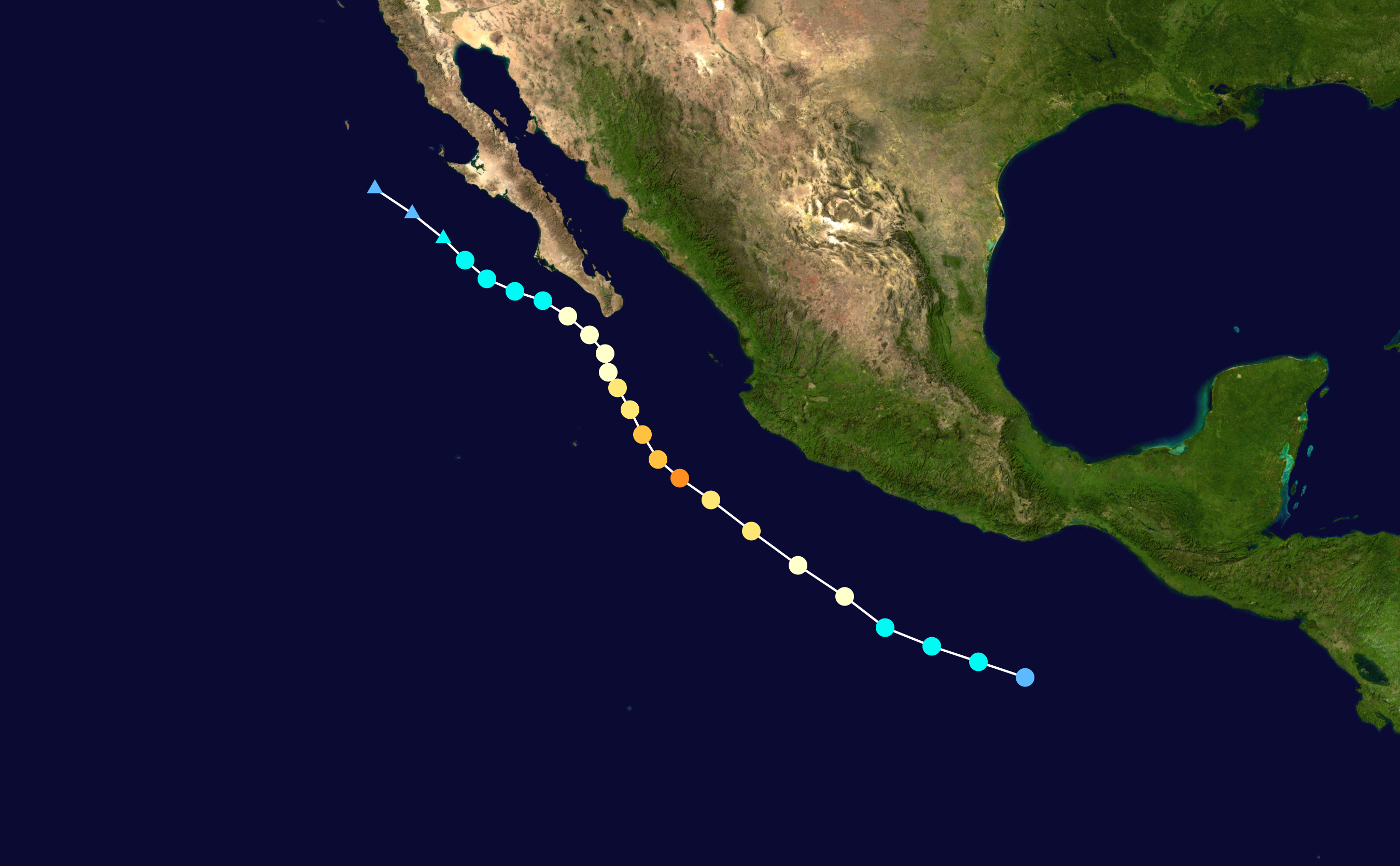 Track map of Hurricane Genevieve of the 2020 Pacific hurricane season. The points show the location of the storm at 6-hour intervals. The colour represents the storm's maximum sustained wind speeds as classified in the Saffir–Simpson scale (see below), and the shape of the data points represent the nature of the storm, according to the legend below. Saffir–Simpson scale Tropical depression≤38 mph≤62 km/h Category 3111–129 mph178–208 km/h Tropical storm39–73 mph63–118 km/h Category 4130–156 mph209–251 km/h Category 174–95 mph119–153 km/h Category 5≥157 mph≥252 km/h Category 296–110 mph154–177 km/h Unknown Storm type Tropical cyclone Subtropical cyclone Extratropical cyclone / Remnant low / Tropical disturbance / Monsoon depression